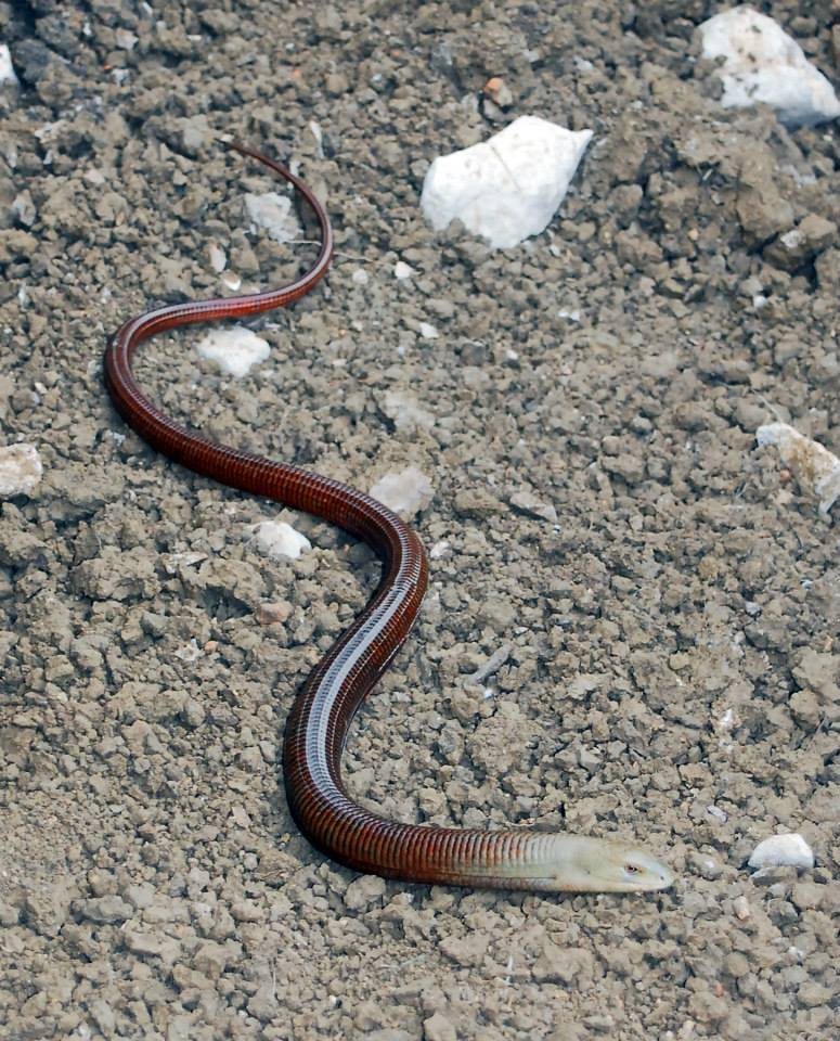 Sheltopusik